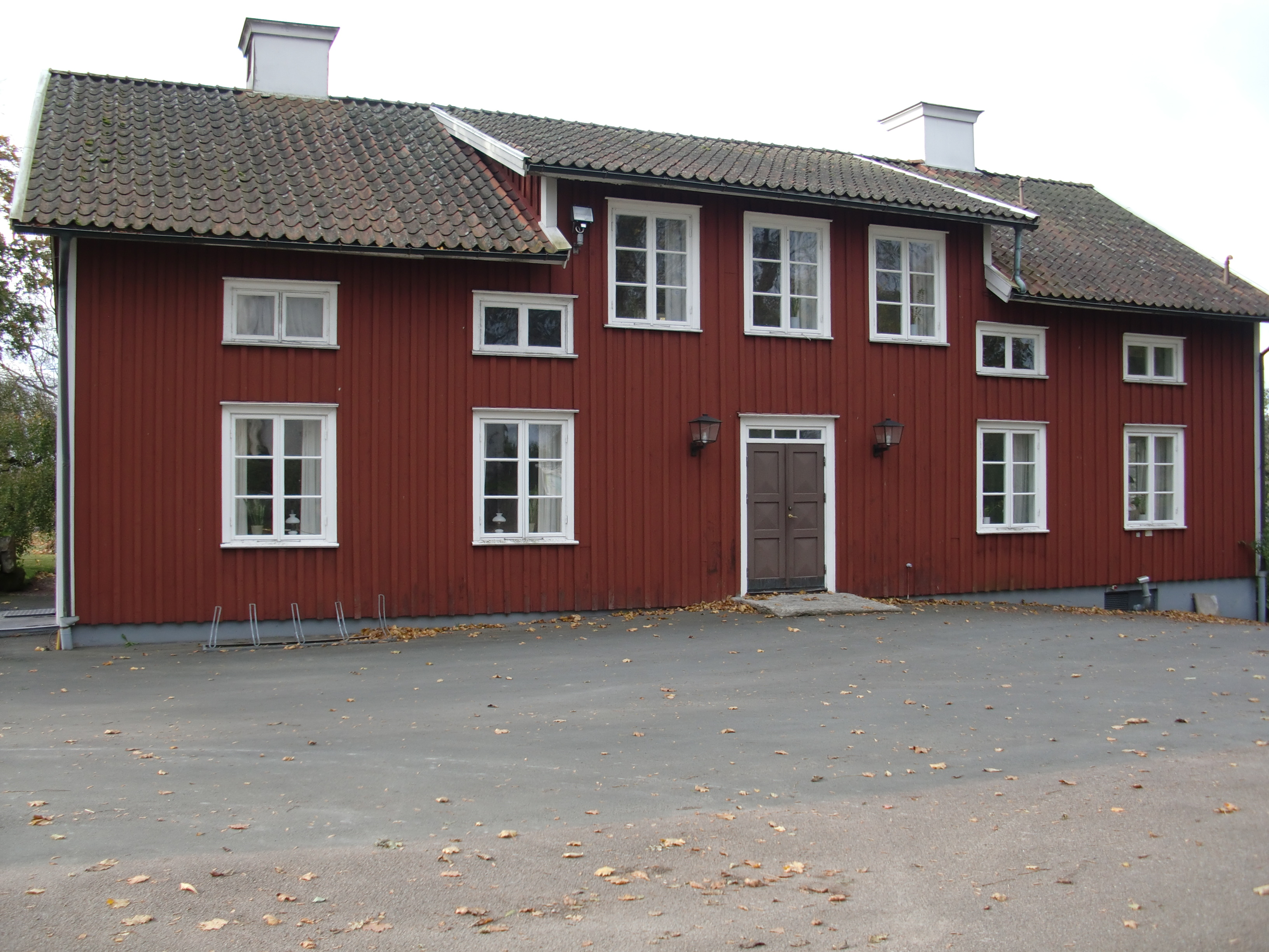 Parish Hall at Reftele church